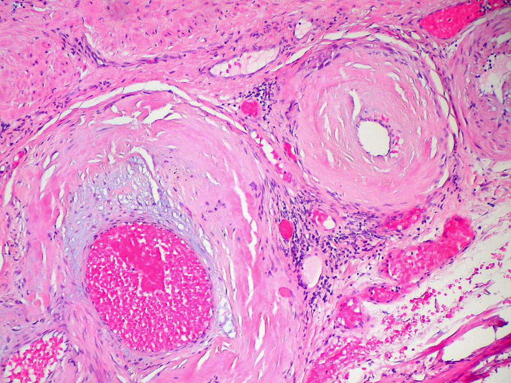 Amyloidosis, H&E Most of the amyloid consisted of acellular pink globules that effaced and expanded the node, but this image shows the characteristic involvement of blood vessel walls